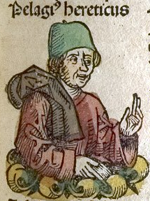 Pelgius